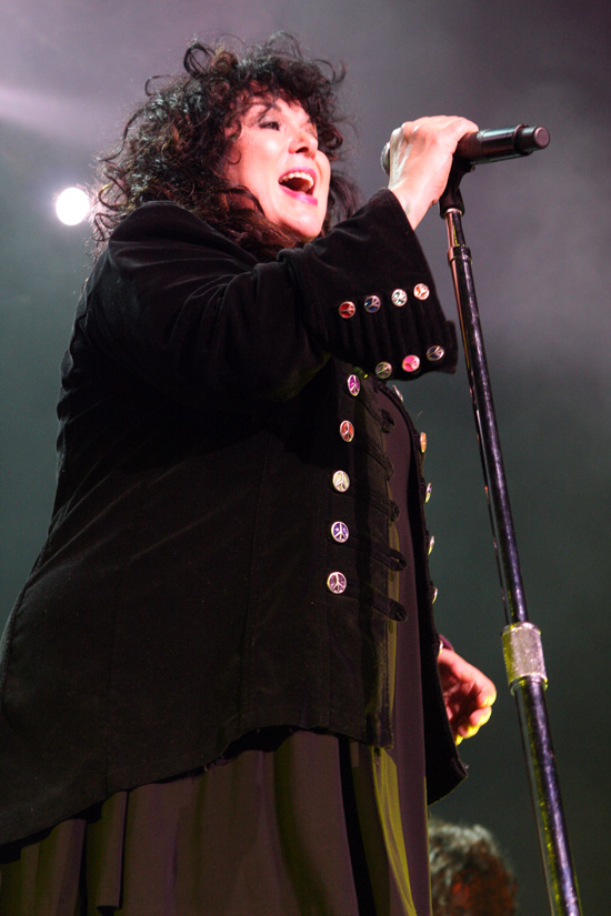 Ann Wilson of Heart performing live in Sydney in 2011.